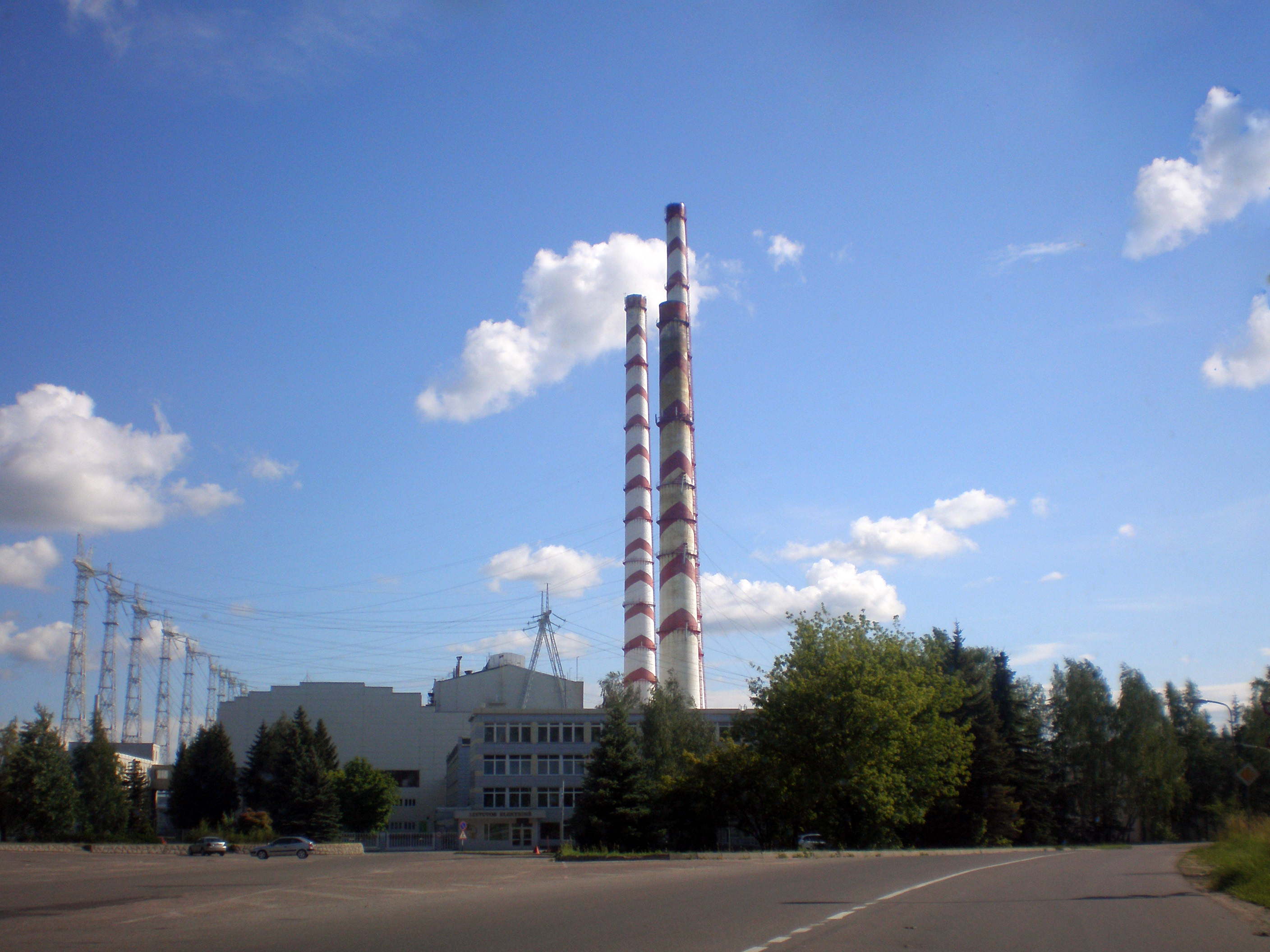 The power plant in Elektrėnai, Lithuania